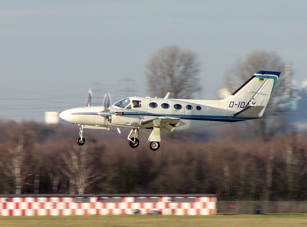 Cessna 425 Conquest I (D-IDAX) in Düsseldorf (EDDL/DUS)